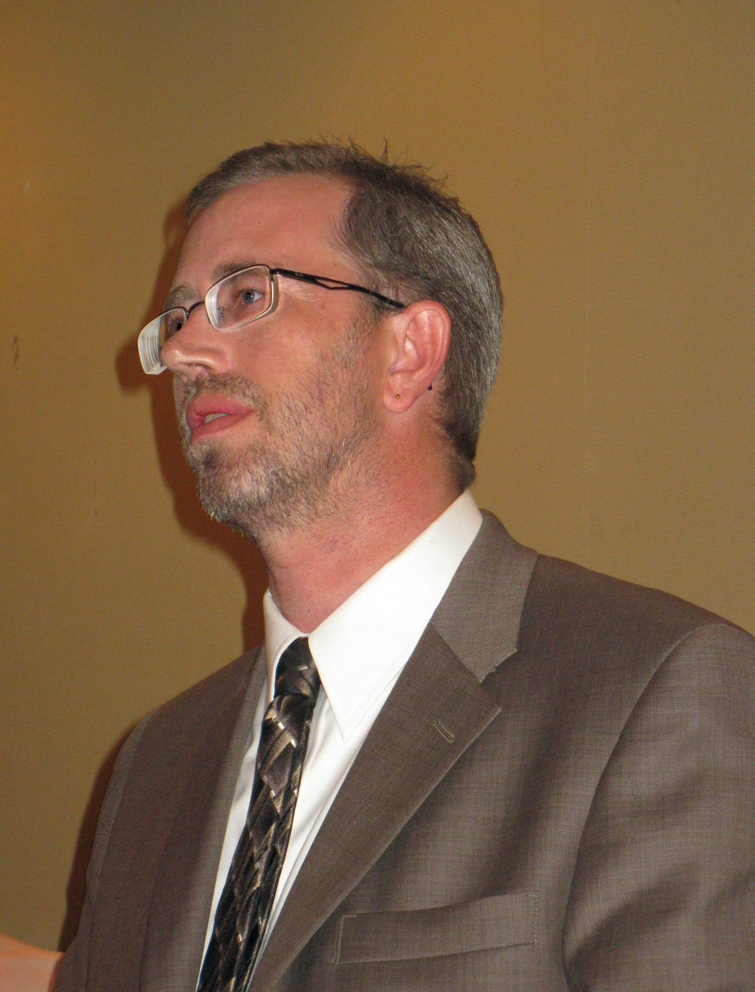 Author Russell Davis at the SFWA Nebula award ceremony 2010.